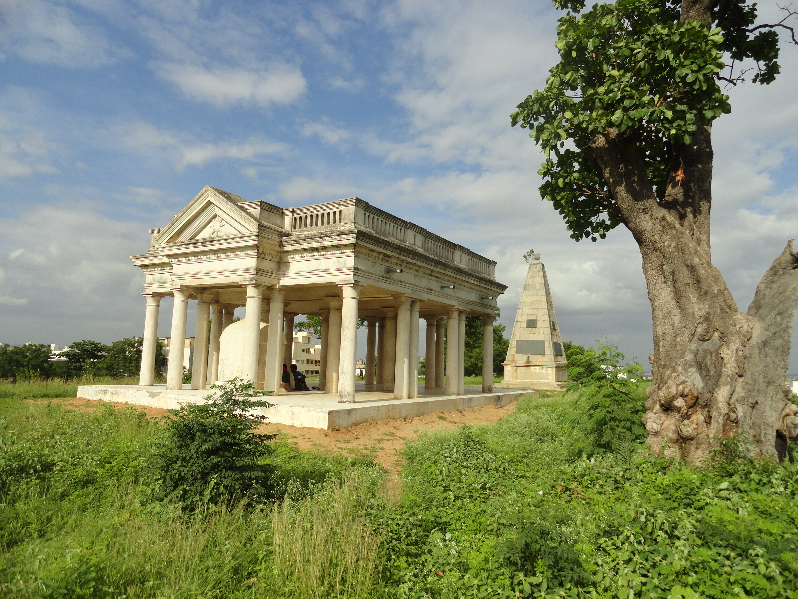 it is a full picture of monds raimonds oblisk situated at malak pet in hyderabad, andhra pradesh state in india